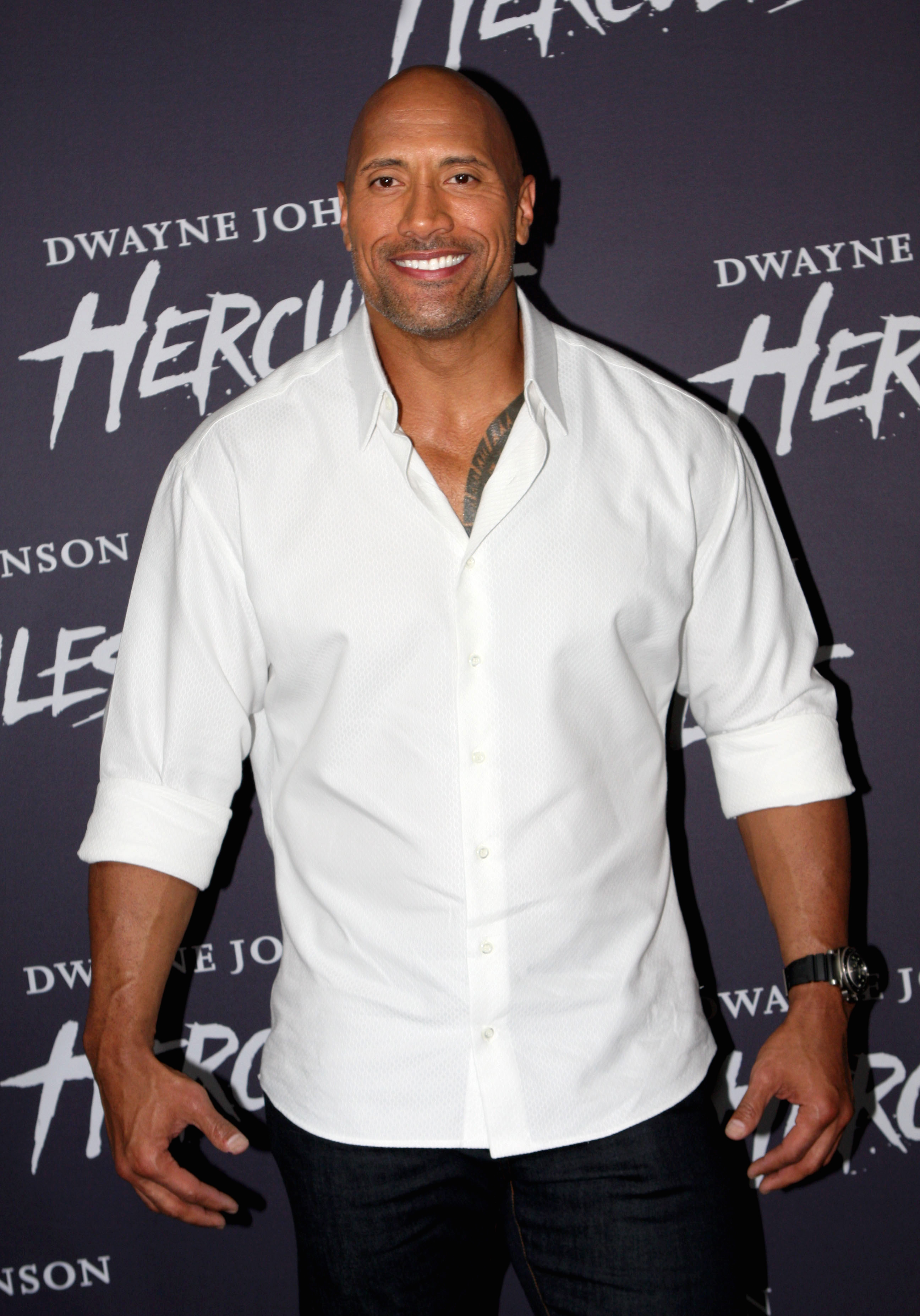 Hercules Premiere, Event Cinemas Sydney Australia